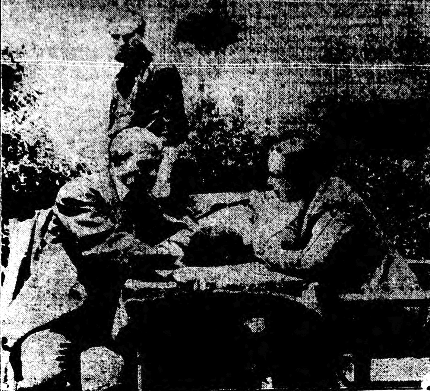 The Only Son is a 1914 American silent drama film directed by Oscar Apfel and Cecil B. DeMille. This is a publicity photo from a newspaper published for the film.